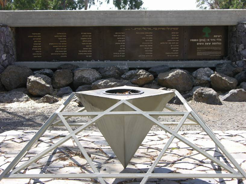 Tel Faher, Israel Defense Forces memorial site